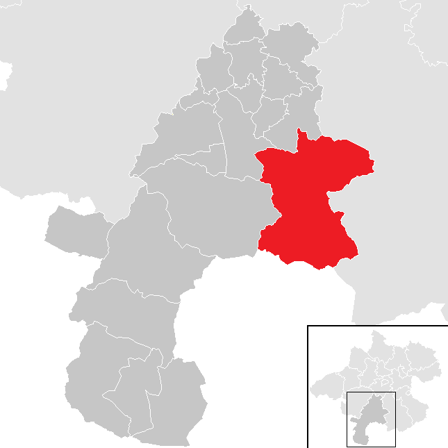 district Gmunden